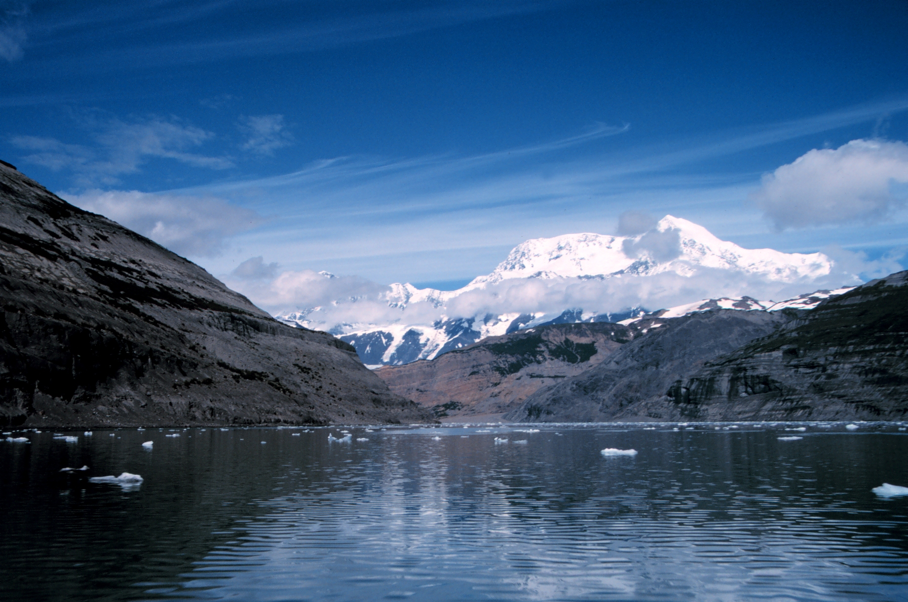 Photo #5 of Mount St. Elias sequence. Mount Saint Elias is one of the largest mountains visible from the sea on the North American continent. It rises to a height of 18,008 feet in a distance of less than 20 miles from sea level at Icy Bay. Icy Bay, South Central Alaska.